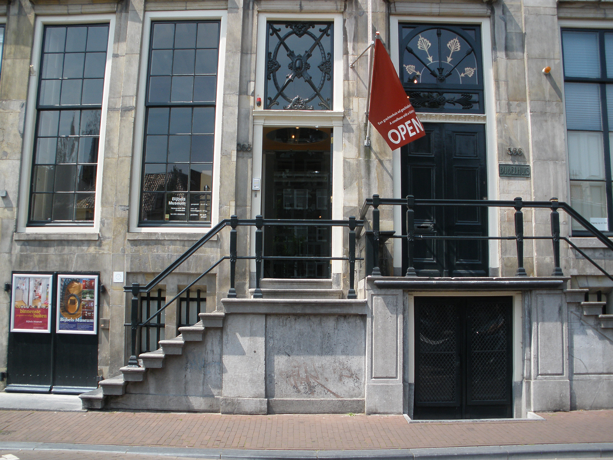 The Bijbels Museum (Biblical Museum) on the Herengracht canal in Amsterdam